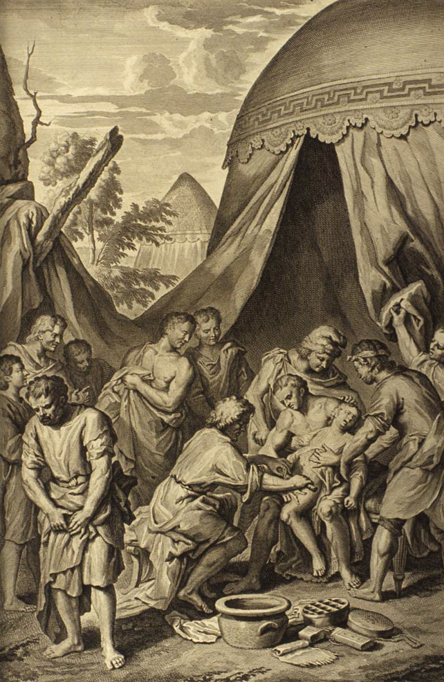 Abraham Took Ishmael with All the Males Born in His House and Circumcised Them; as in Genesis 17:23: "And Abraham took Ishmael his son, and all that were born in his house, and all that were bought with his money, every male among the men of Abraham's house; and circumcised the flesh of their foreskin in the selfsame day, as God had said unto him."; illustration from the 1728 Figures de la Bible; illustrated by Gerard Hoet (1648–1733) and others, and published by P. de Hondt in The Hague; image courtesy Bizzell Bible Collection, University of Oklahoma Libraries